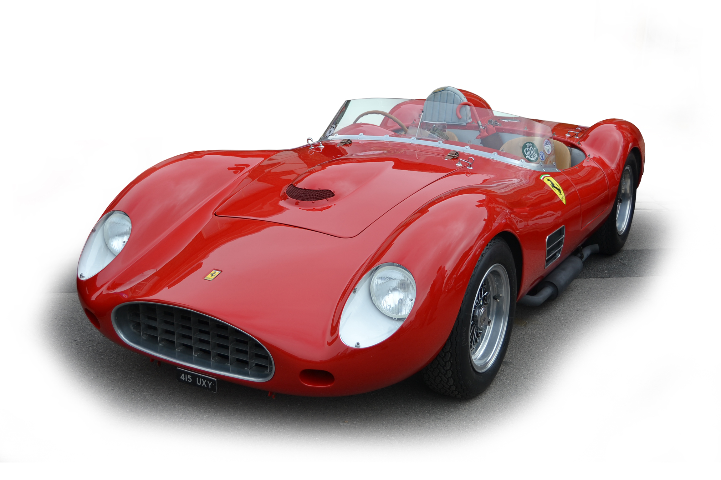 Ferrari Dino 196 S at Chelsea Auto Legends 2012